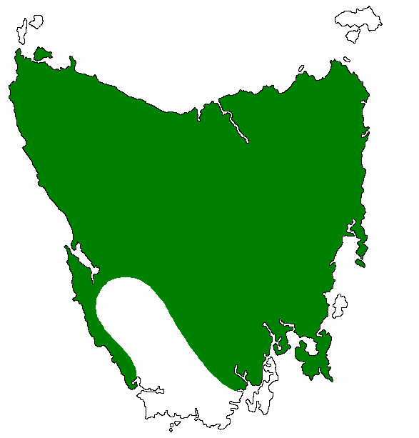 Possible distribution of Thylacinus cynocephalus (green) on Tasmania island — Tasmanian wolf, Tasmanian tiger. Now extinct, the largest known carnivorous marsupial of modern times was formerly native to Oceania in continental Australia, Tasmania, and New Guinea. Last known "Tasmanian wolf" was shot and killed on Tasmania in 1930.